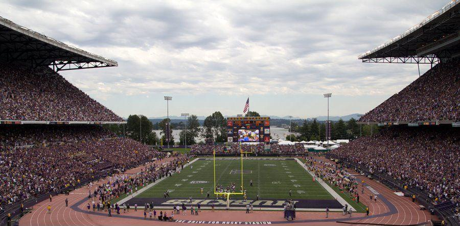 Husky Stadium